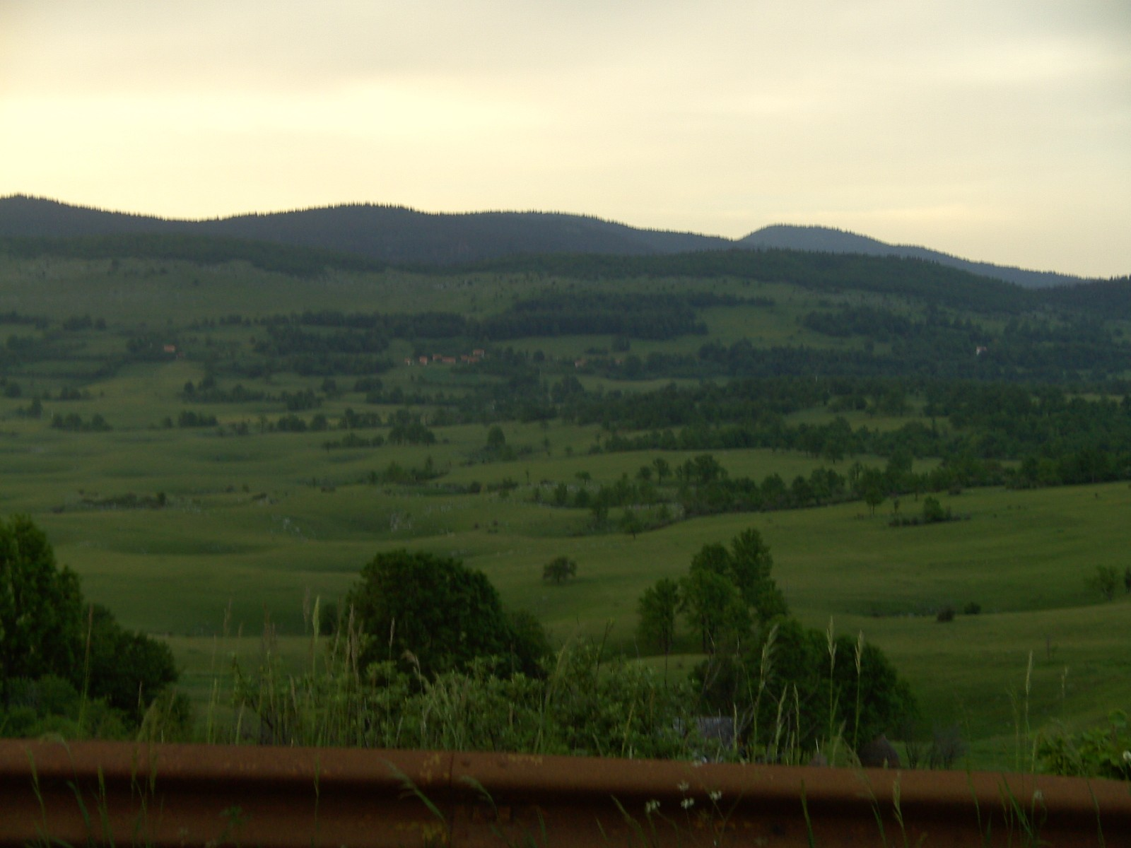 The town of Bosanski Petrovac/Petrovac in Bosnia and Herzegovina